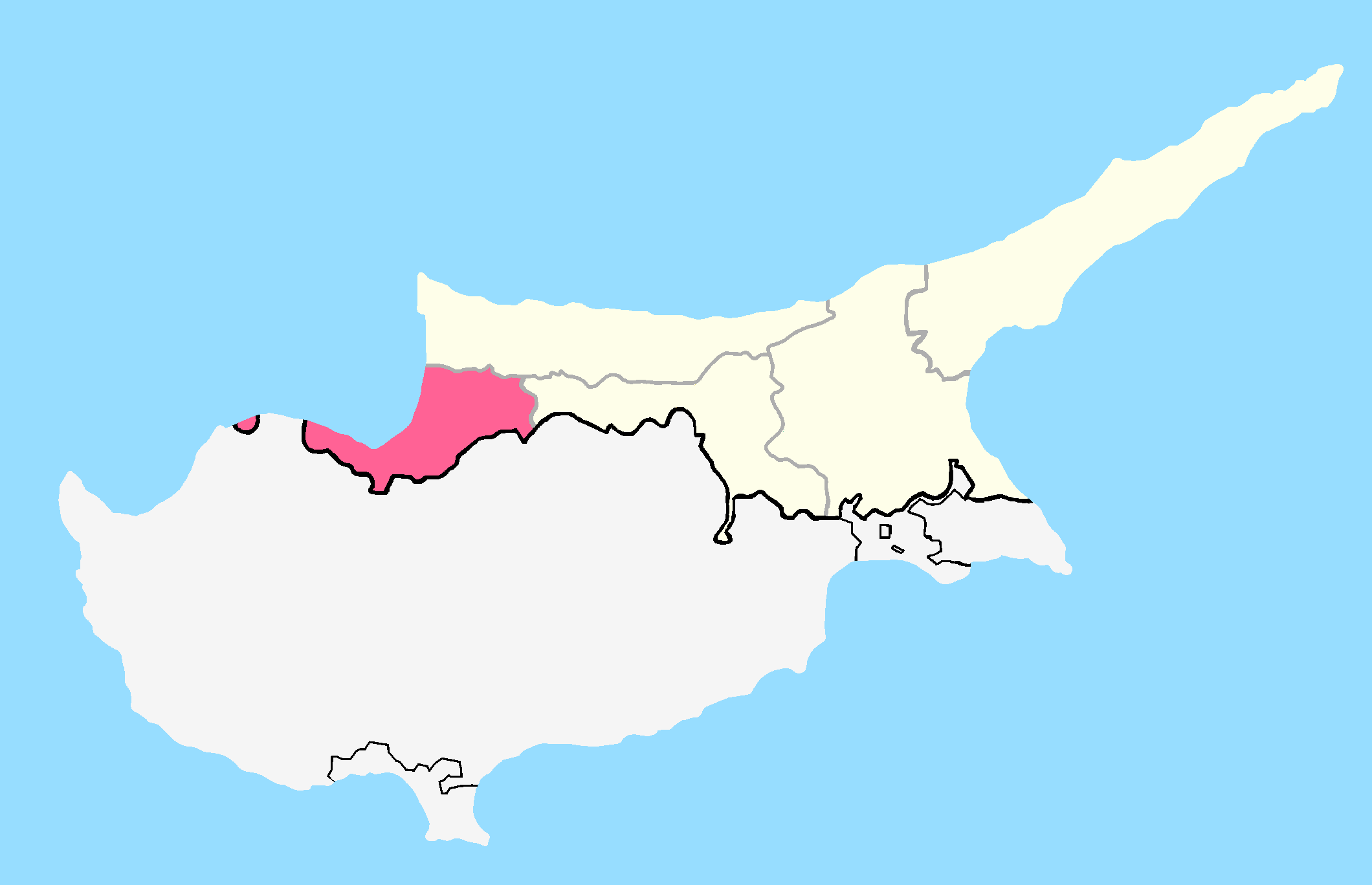 Güzelyurt District Map